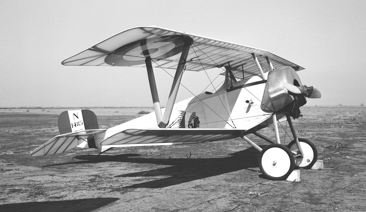 Joe Pfeifer's Nieuport built for himself and his son Richard. Porterville, CA, 9-23-62.